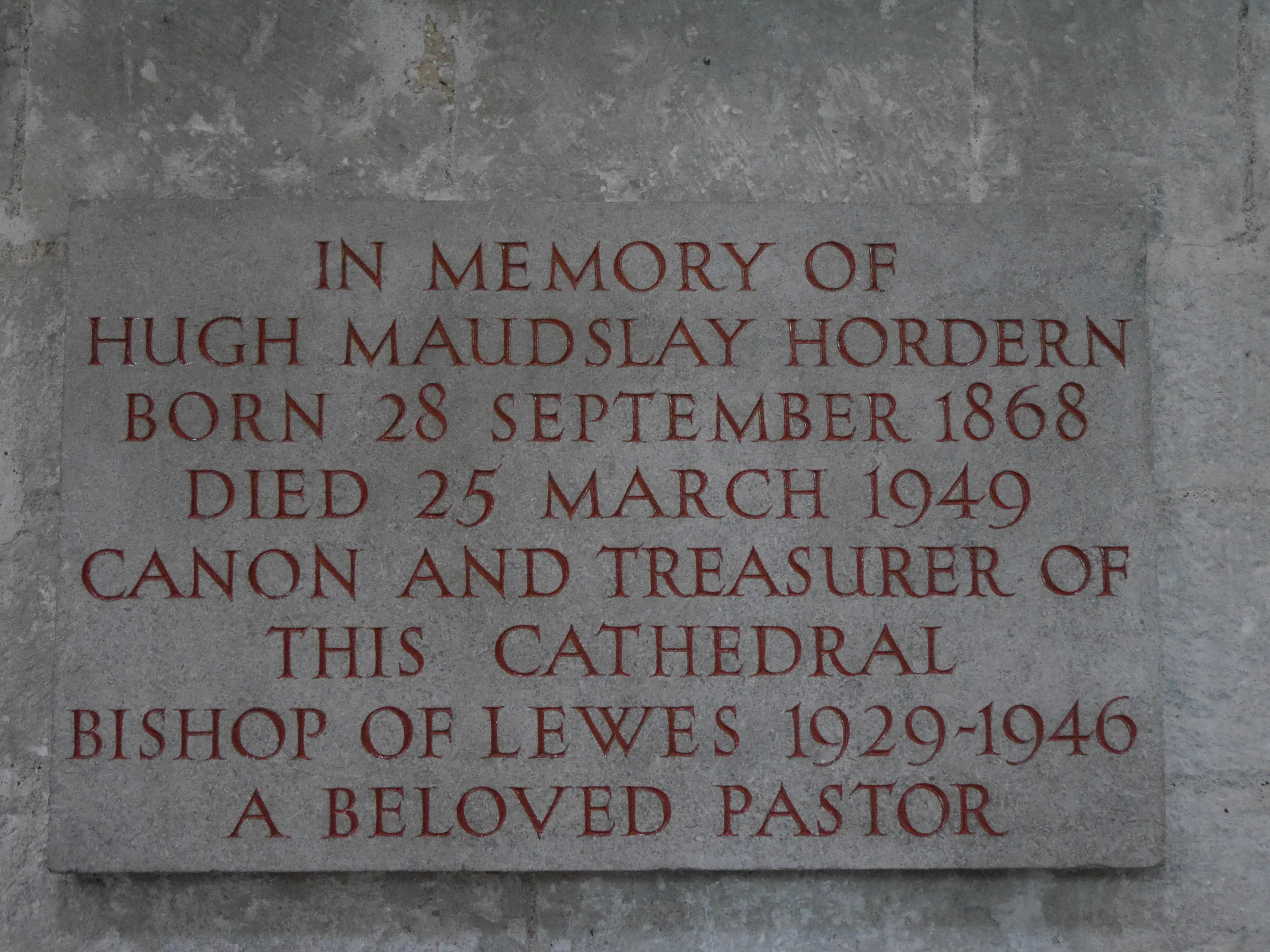 Chichester Cathedral, July 2015